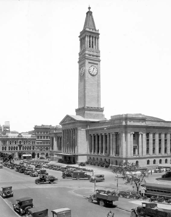 Brisbane City Hall, Adelaide Street, Brisbane.